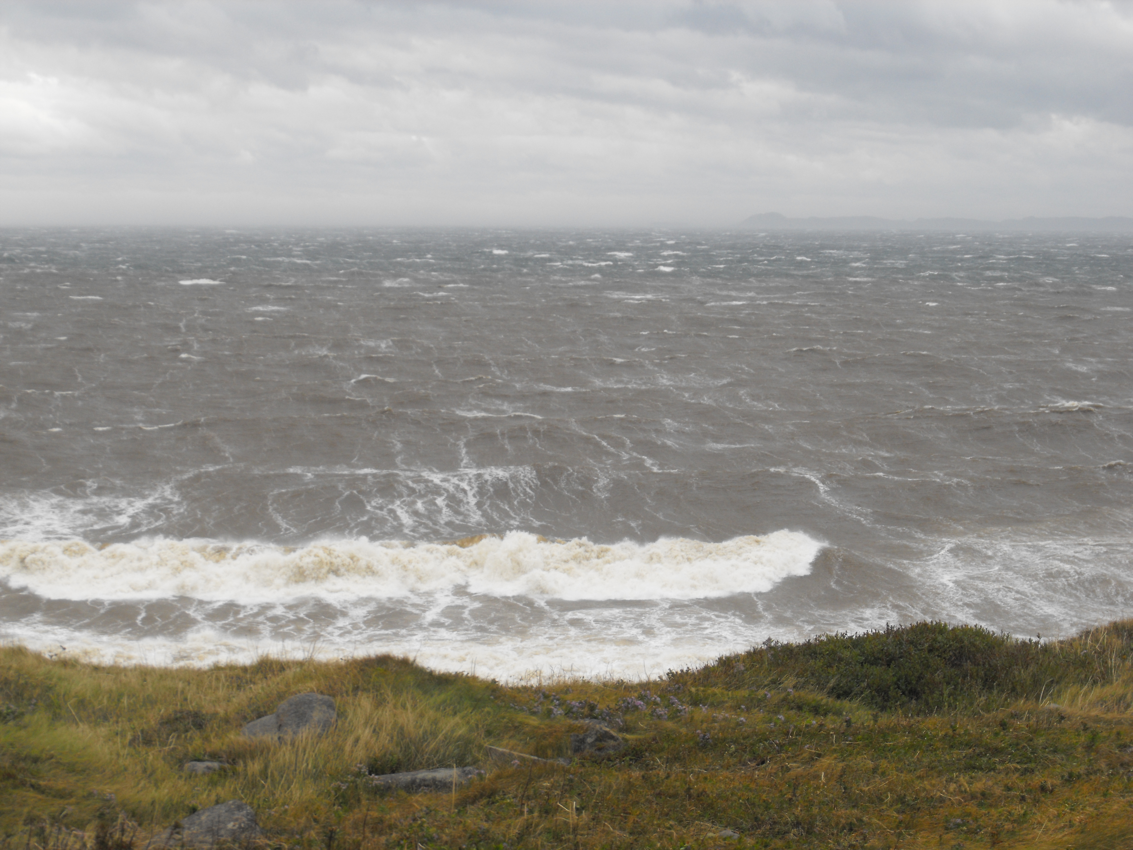 Hurricane Igor packs a punch